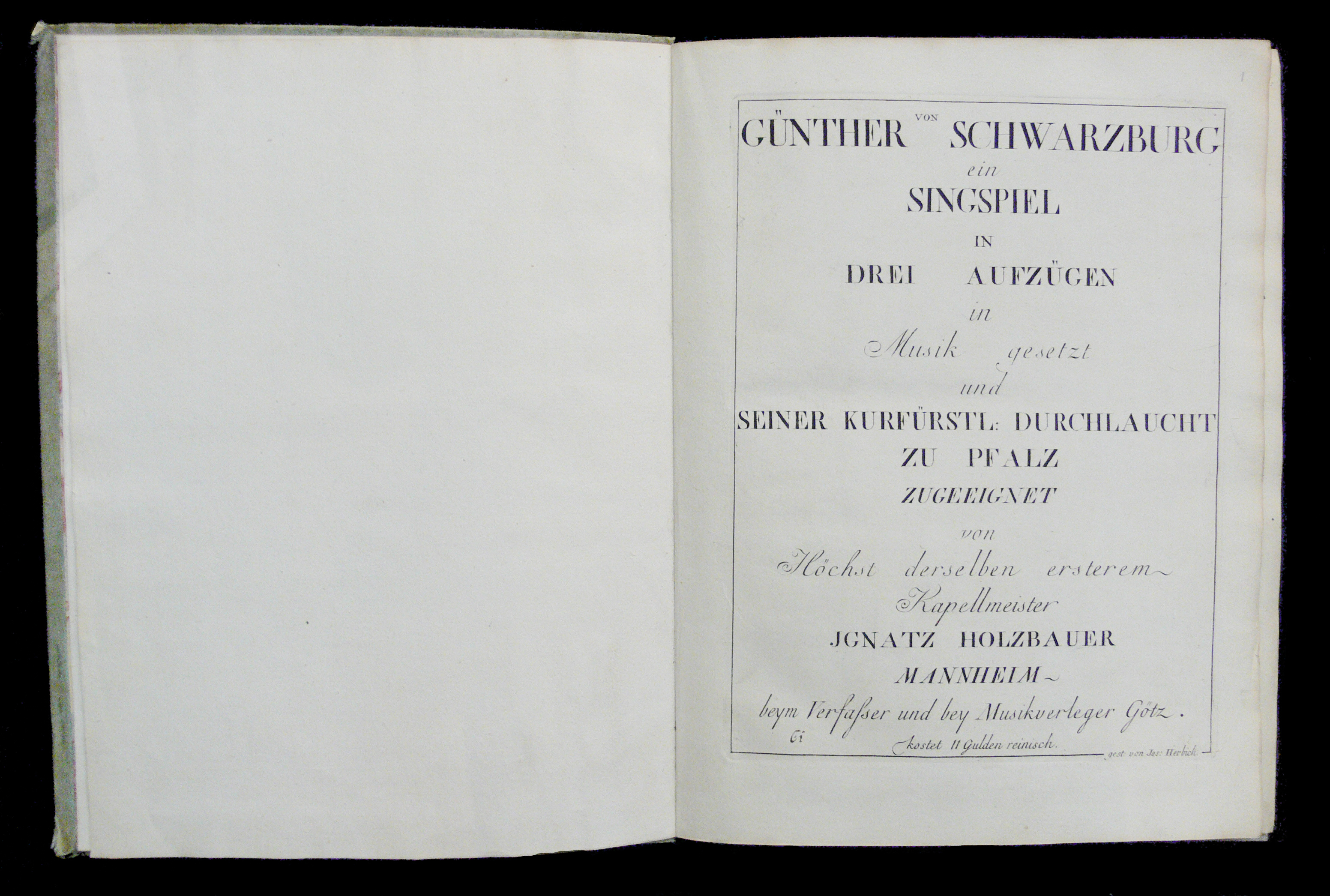 Title page of the original score of Iganz Holzbauer's (1711–1783) opera Günther von Schwarzburg (1777) Collection: Reiss-Engelhorn-Museen, Mannheim